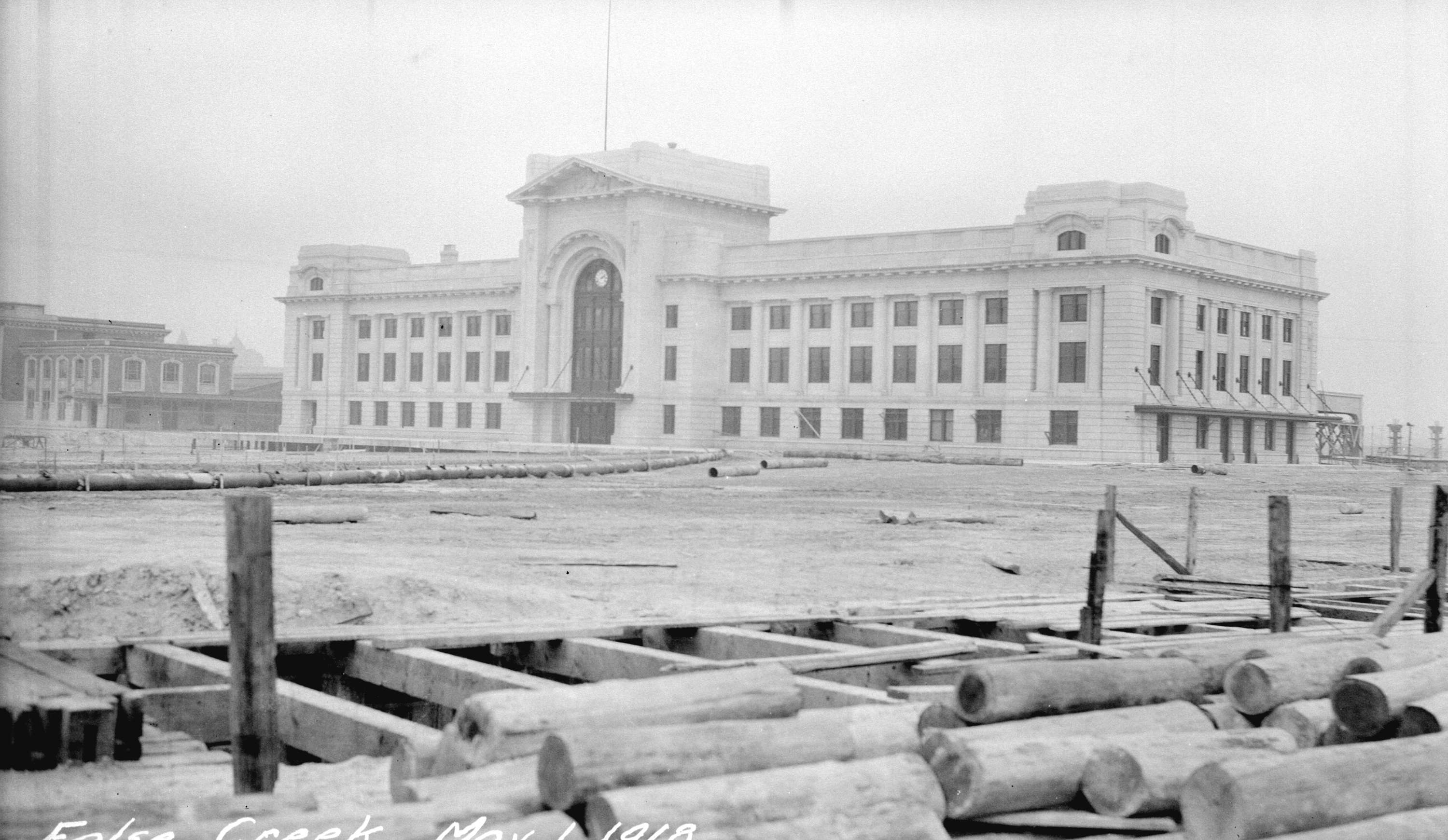 [Canadian Northern Railway station] False Creek Title proper [Canadian Northern Railway station] False Creek General material designation Photograph Level of description Item Reference code AM54-S4-: Bu N540.095 Dates of creation area Date(s) 1 May 1918 (Creation) Physical description area Physical description 1 photograph : b&w nitrate negative; 9 x 15 cm Archival description area Name of creator Matthews, James Skitt, Major (1878-1970) Scope and content Photograph shows land area around station in process of being filled. Notes area Availability of other formats Also available as contact print Bu P647.095 Alpha-numeric designations Old Photo Number: Bu P647.095 Access points Subject access points Railroads--Stations Place access points Vancouver (B.C.) Rights area Related right Basis Copyright Copyright status Public domain Act Replicate Restriction Allow Digital object metadata Filename e1f023f2-6300-48b0-806b-3a04ceb0b680-A09113.jpg Mime-type image/jpeg Filesize 424.5 KiB Reports Browse as list Browse digital objects Export Dublin Core 1.1 XML EAD 2002 XML Related subjects Railroads--Stations Related places Vancouver (B.C.) Container name Box: 183-D-1